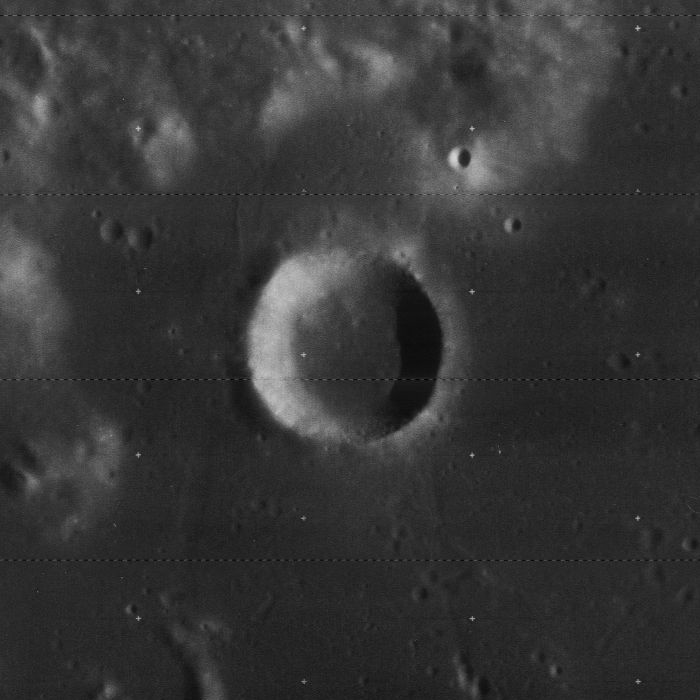 Al-Bakri, on the moon.